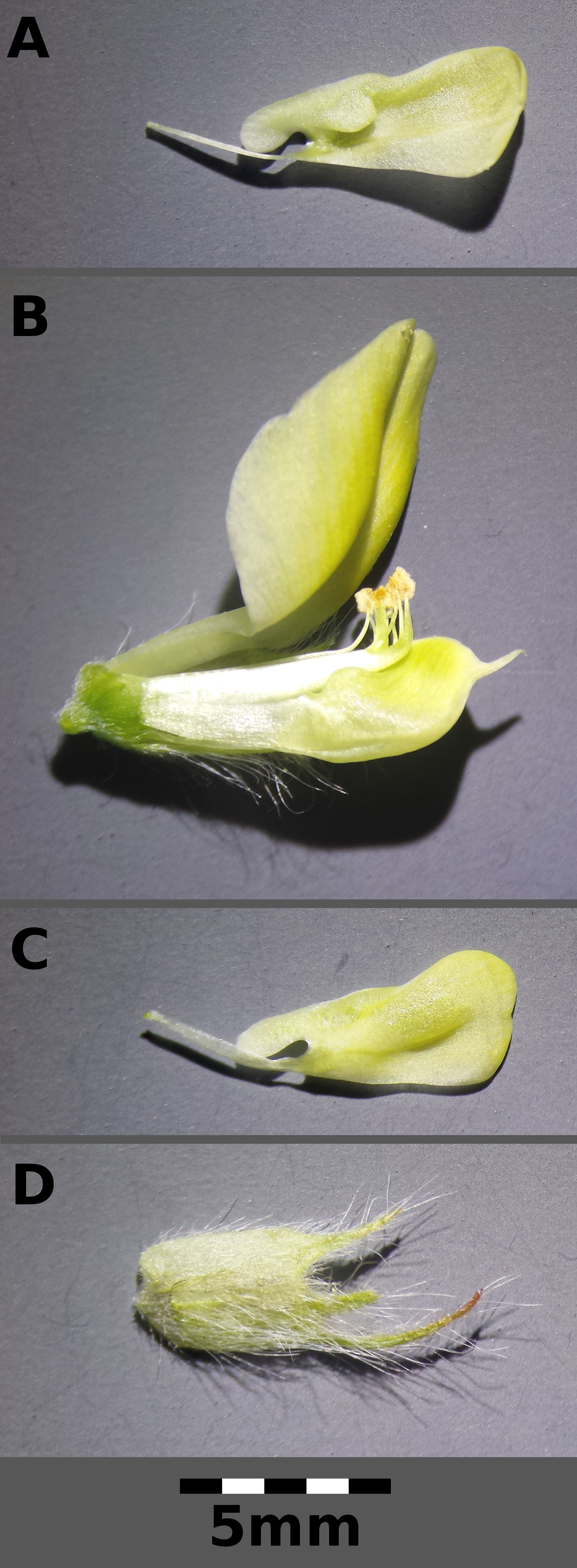 Flower: A, C: wings B: flower with banner, stamens/pistil and keel with tip D: calyx Taxonym: Oxytropis pilosa (ss Fischer et al. EfÖLS 2008 ISBN 978-3-85474-187-9) Location: Tabulová hora near Klentnice, Jihomoravský kraj, Czech Rebublic - ca. 450 m a.s.l. Habitat: dry grassland on lime stone